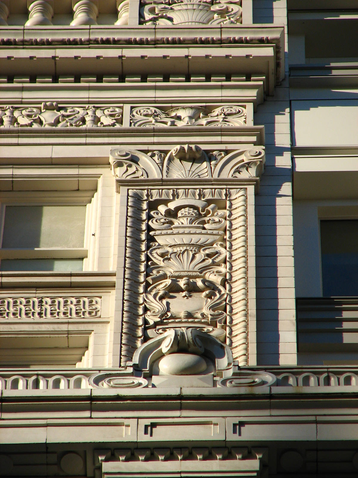 The Meier & Frank Building in Portland, Oregon, United States, is listed on the US National Register of Historic Places (NRHP). This exterior detail is found on the north (Alder Street) side of the building.